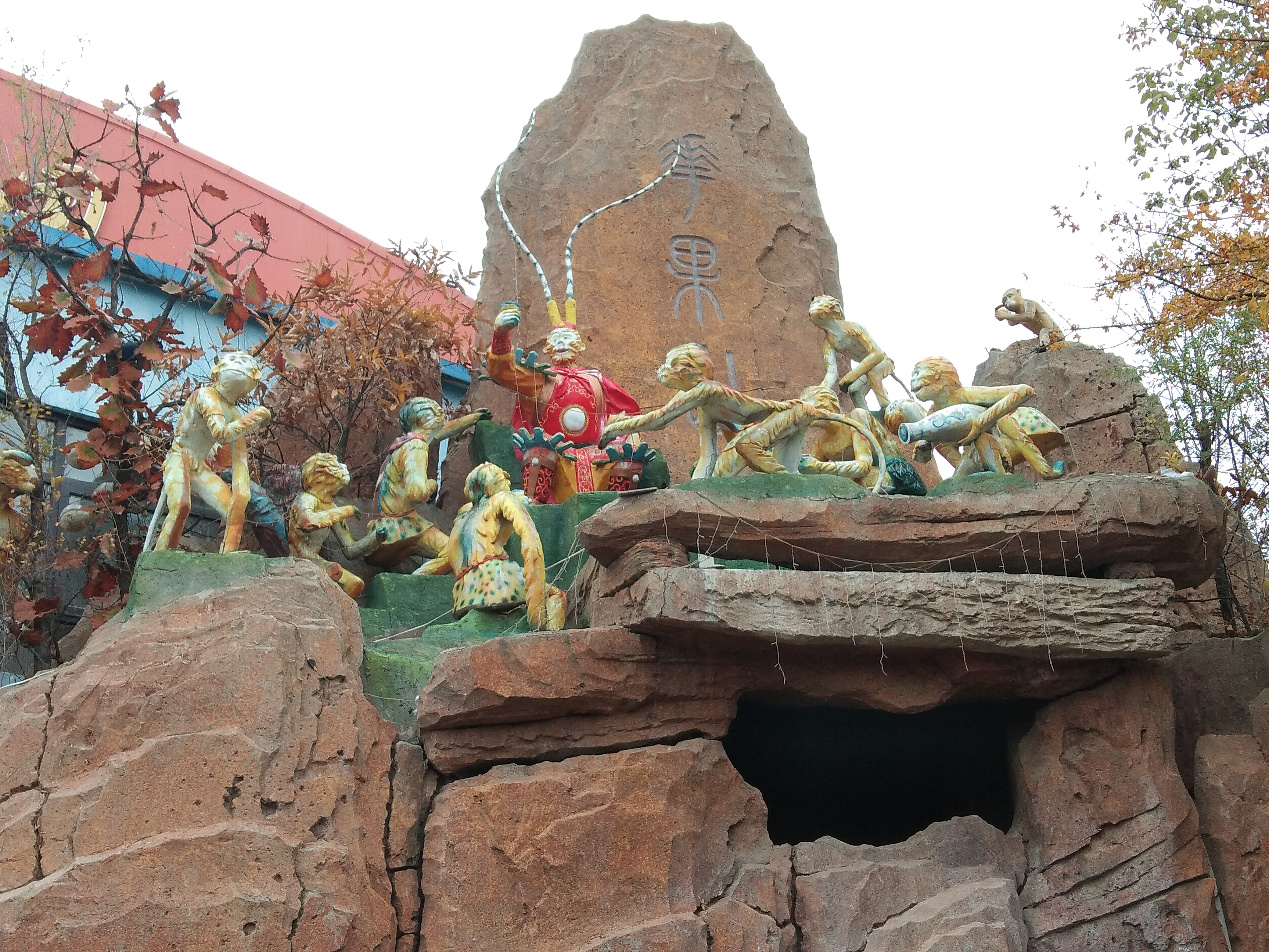 Monkey King's Homeland - Mount Huaguo